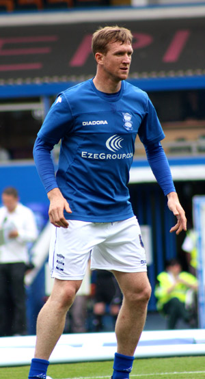 Steven Caldwell photo against Antwerp